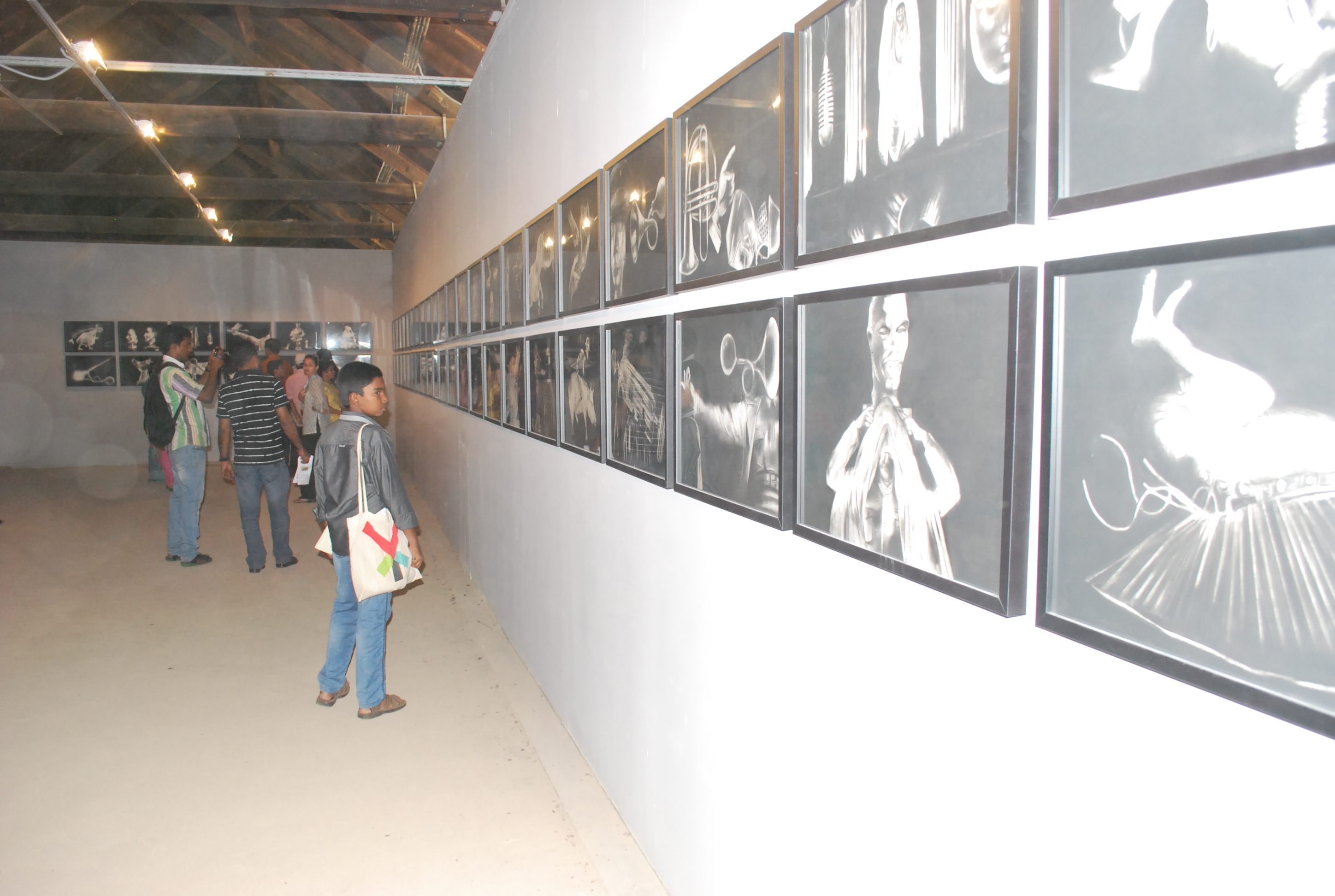 Visitors at Logics of disappearence by KM Madusudanan in Kochi Muziris Binalle 2014